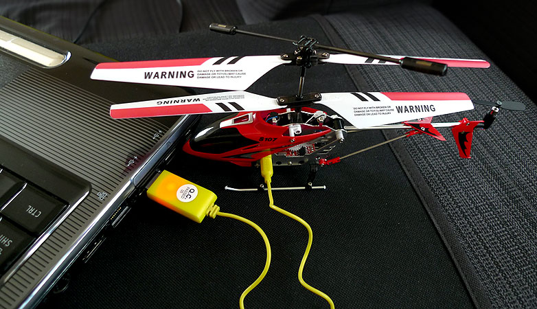 RC helicopter charging on USB port